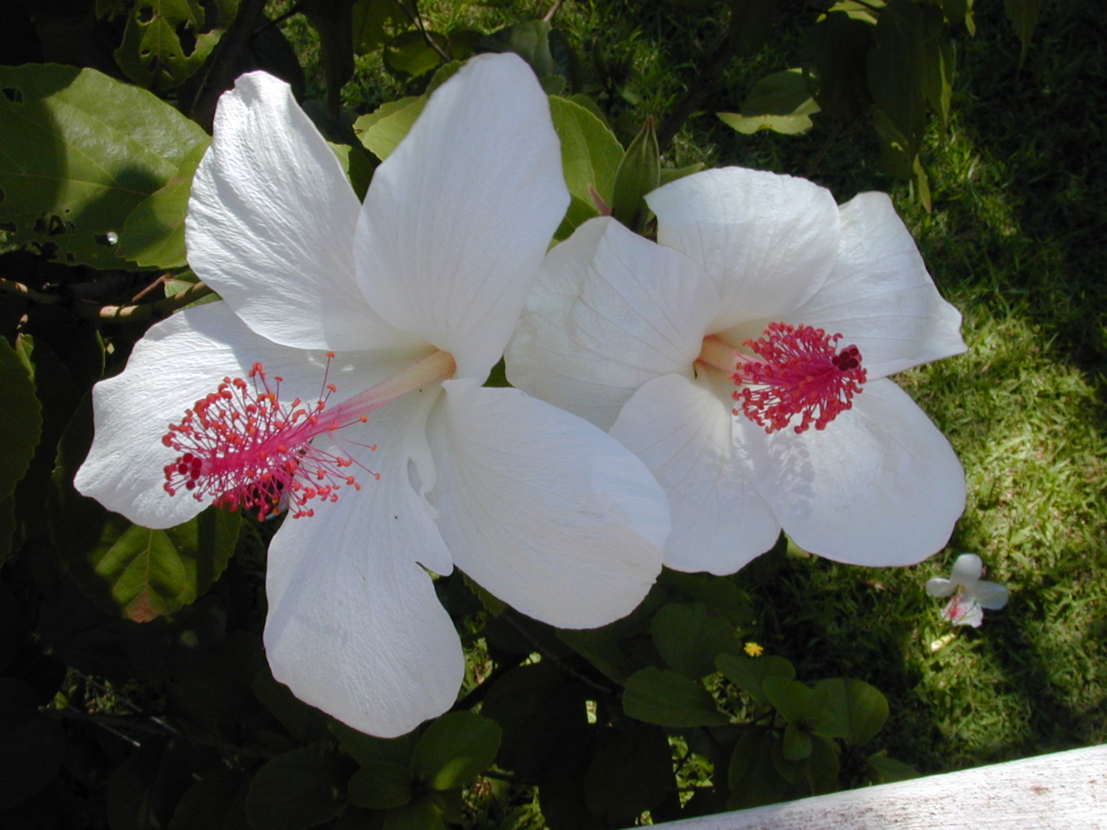 Hibiscus waimeae (flowers). Location: Maui, Makawao